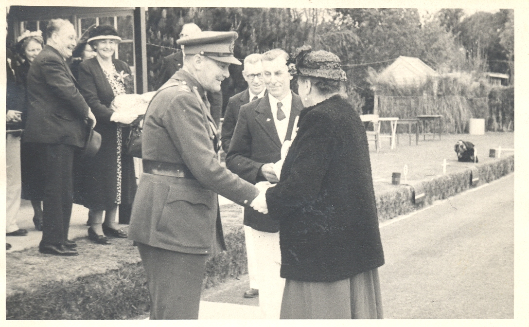 Governer General Sir Bernard Freyburg shaking hands with Mrs Lett